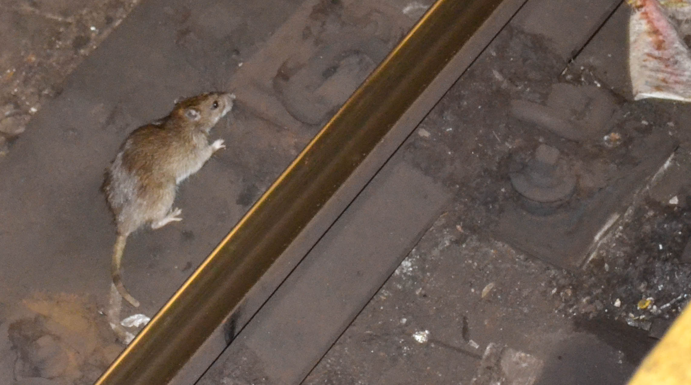 A REAL NYC rat!